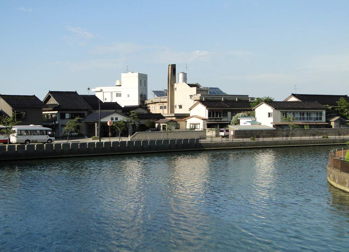 Ikuji Onsen (Kurobe, Toyama, Japan)